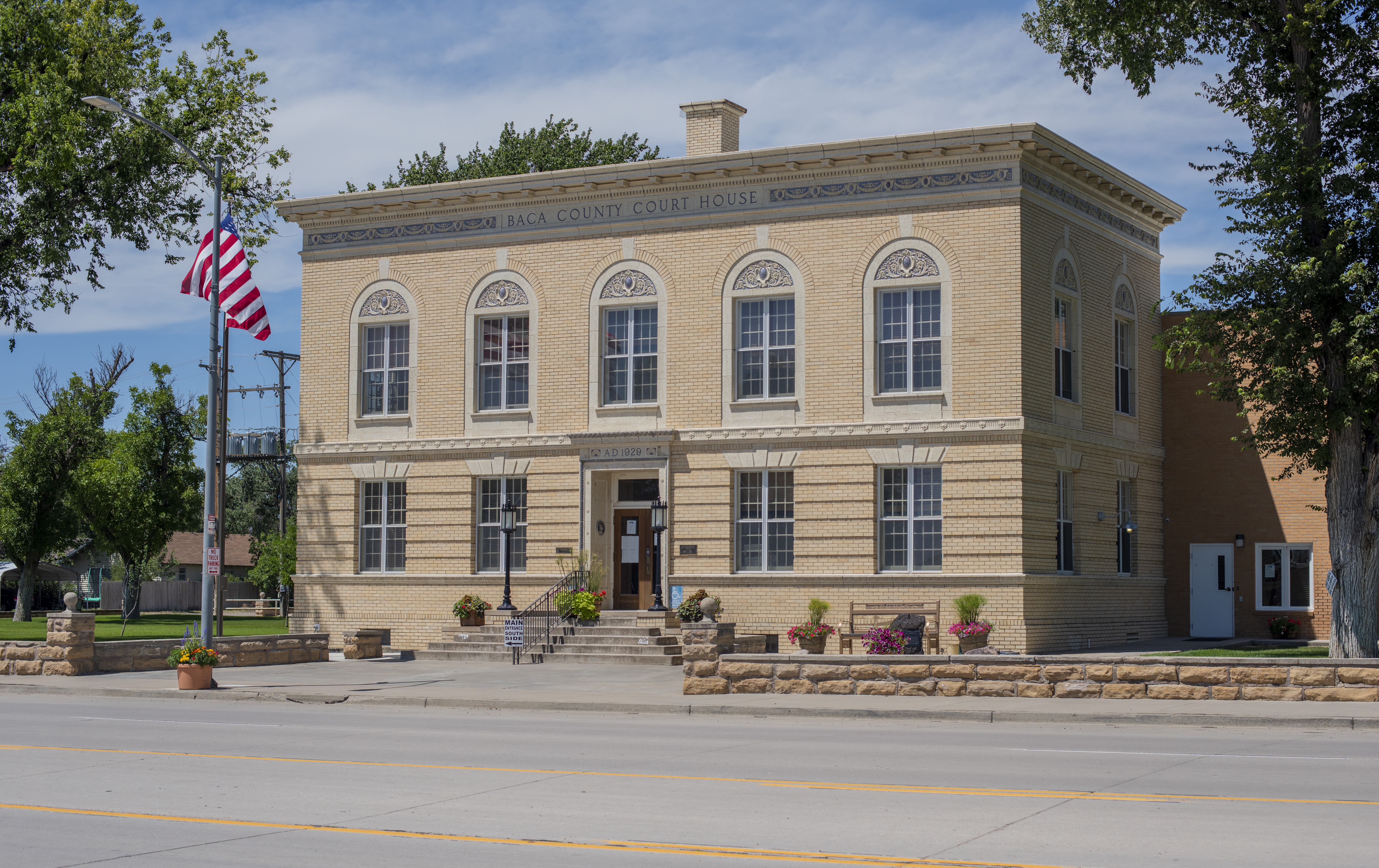 Photograph of the Baca County Courthouse in Springfield, Colorado. Image taken in July 2020.